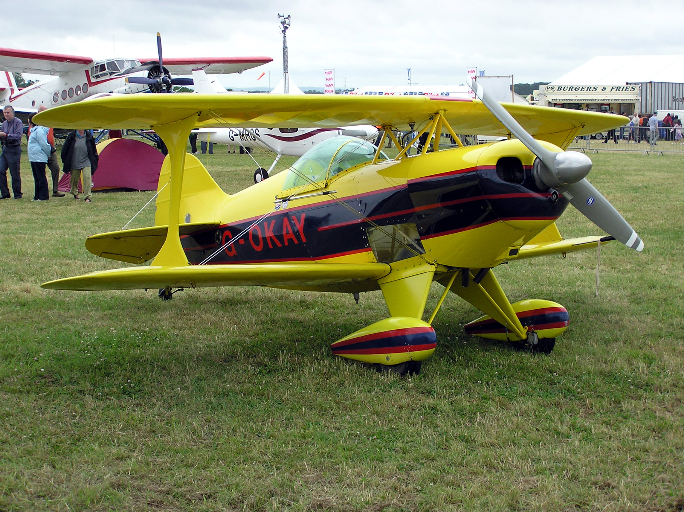 Pitts S-1E (G-OKAY) at Kemble Airfield, Gloucestershire, England. Photographed by Adrian Pingstone in July 2005 and released to the public domain.